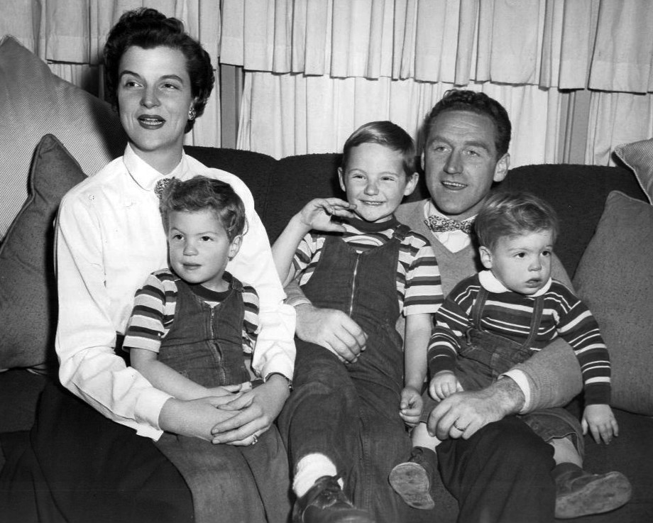 Photo of James Whitmore and Nancy Mygatt, his wife at the time, and their three sons in 1954. The boys are, from left-Stephen, James and Danny.